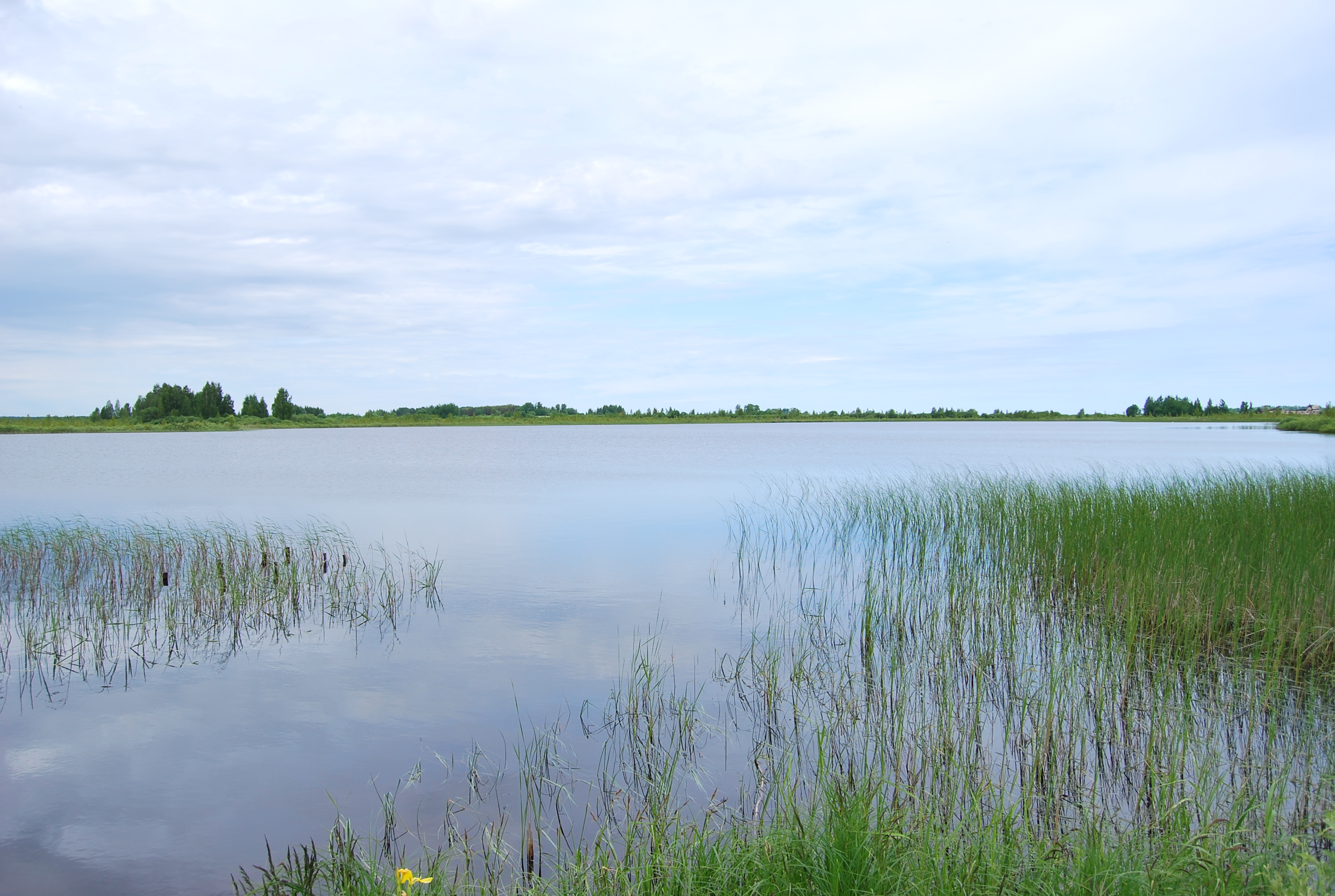 Lake Beresje in Põlva District, Estonia